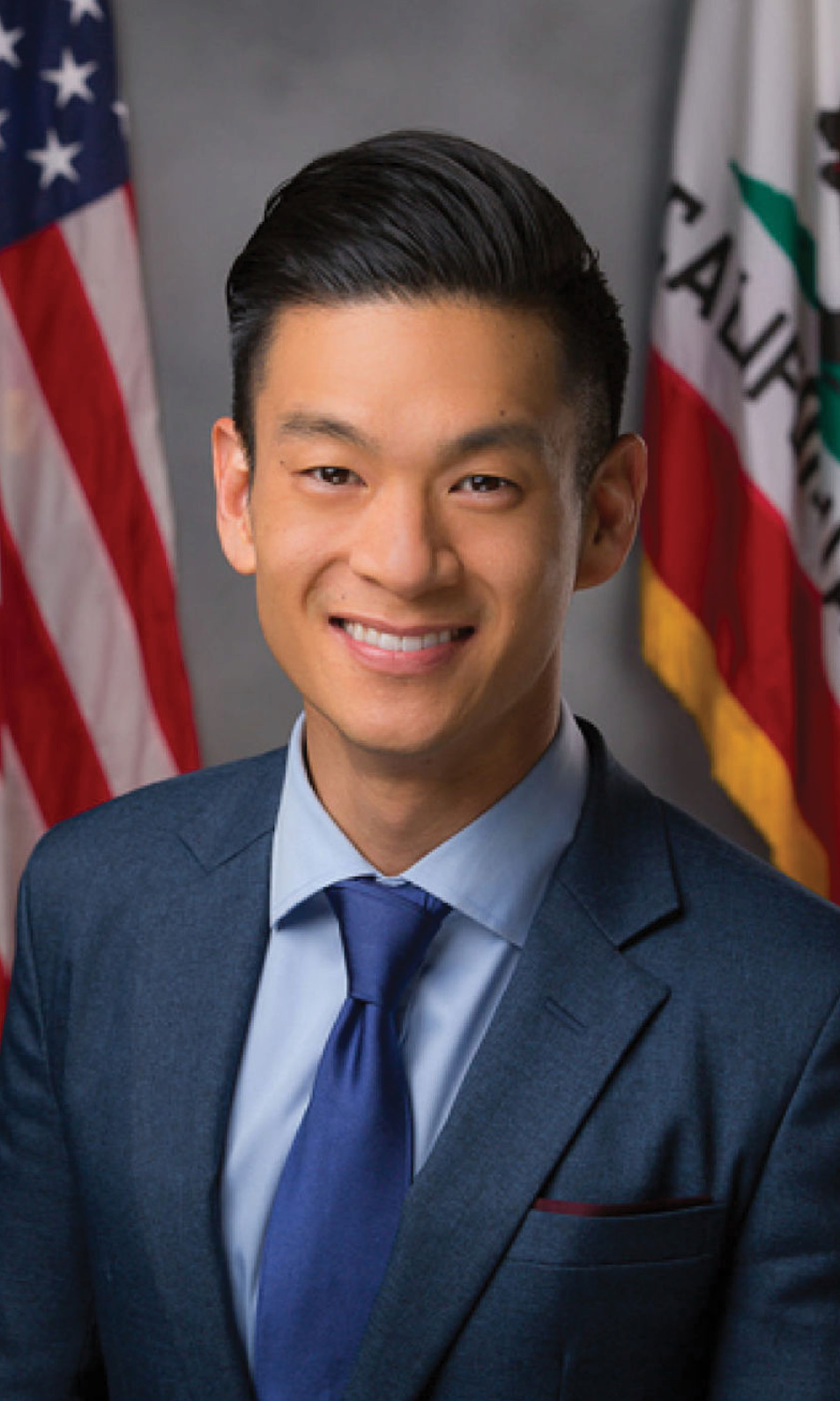 CA Assemblymember Evan Low